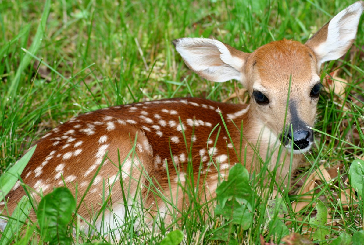 A Baby Fawn Whitetail Deer laying in the grass on a spring morning. This picture was taken remarkably close as the deer simply watched as I took it's picture.